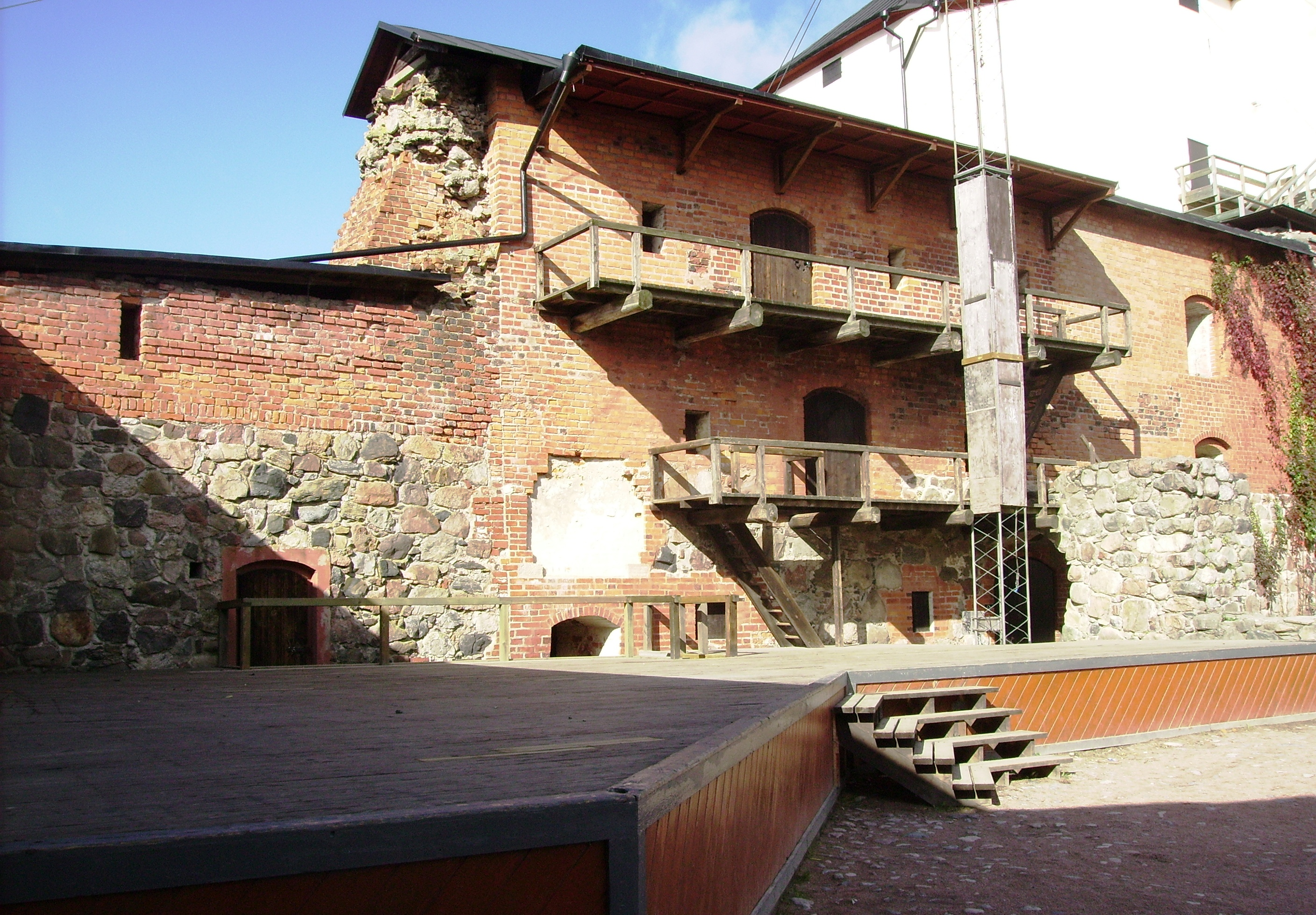 Picture of Nyköpingshus in Nyköping, Södermanland